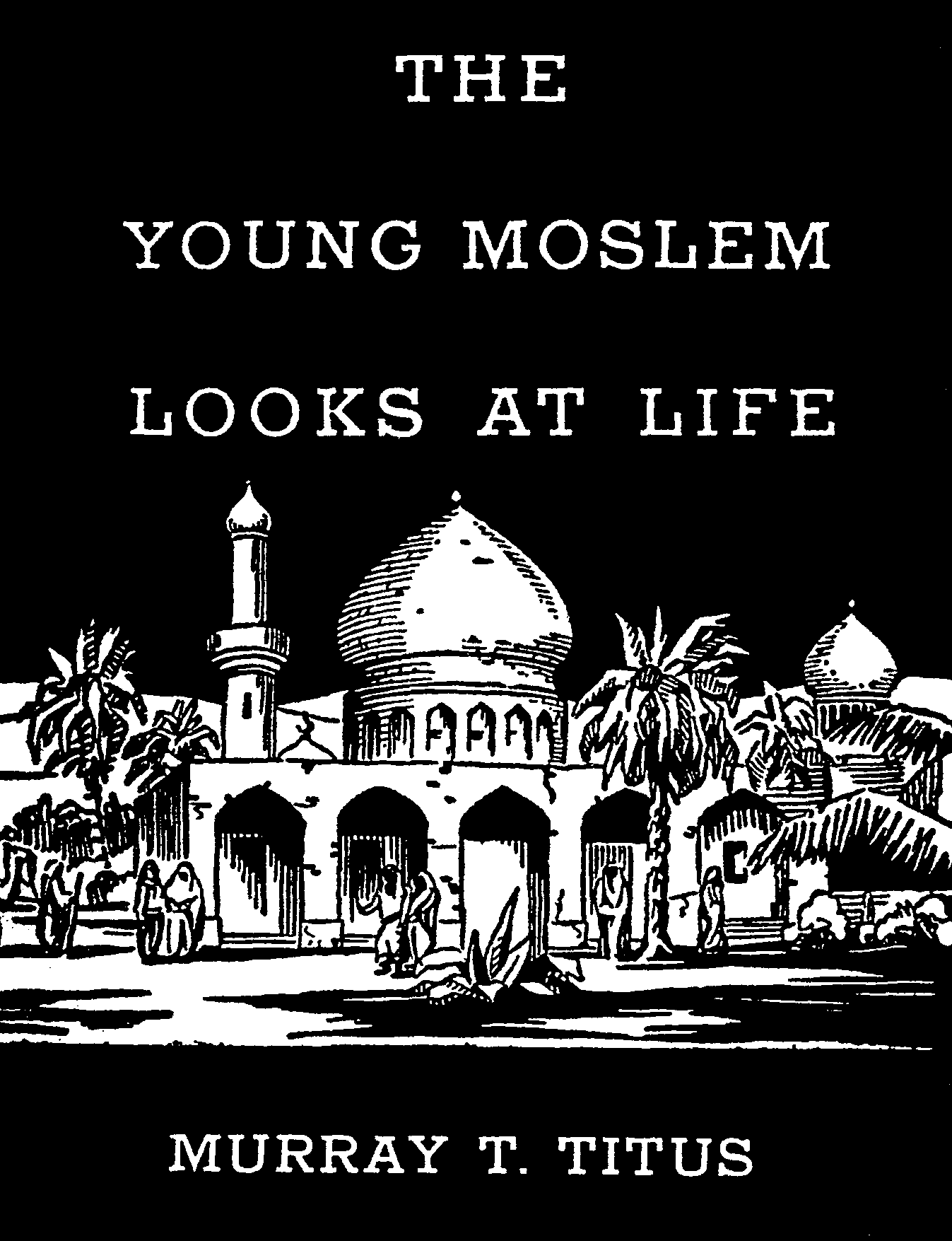 Cover of The Young Moslem Looks at Life, 1937 by Murray Thurston Titus